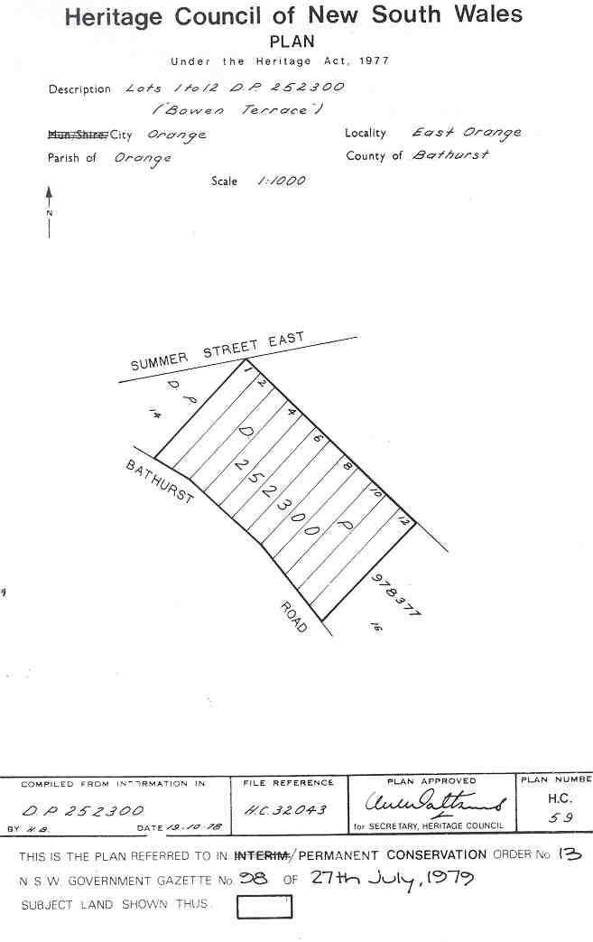 Bowen Terrace: PCO Plan Number 013